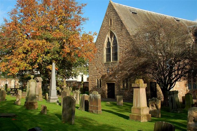 The Auld Kirk Of St John The Baptist Glorious autumn colours in the old churchyard.